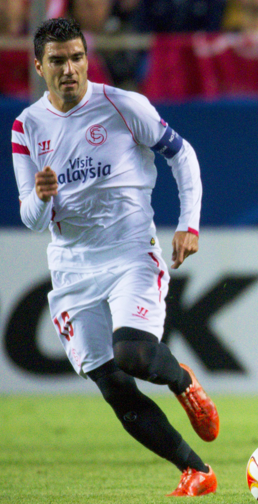 José Antonio Reyes playing for Sevilla in the 2014/15 UEFA Europa League 2014/2015 quarter finals against Zenit.